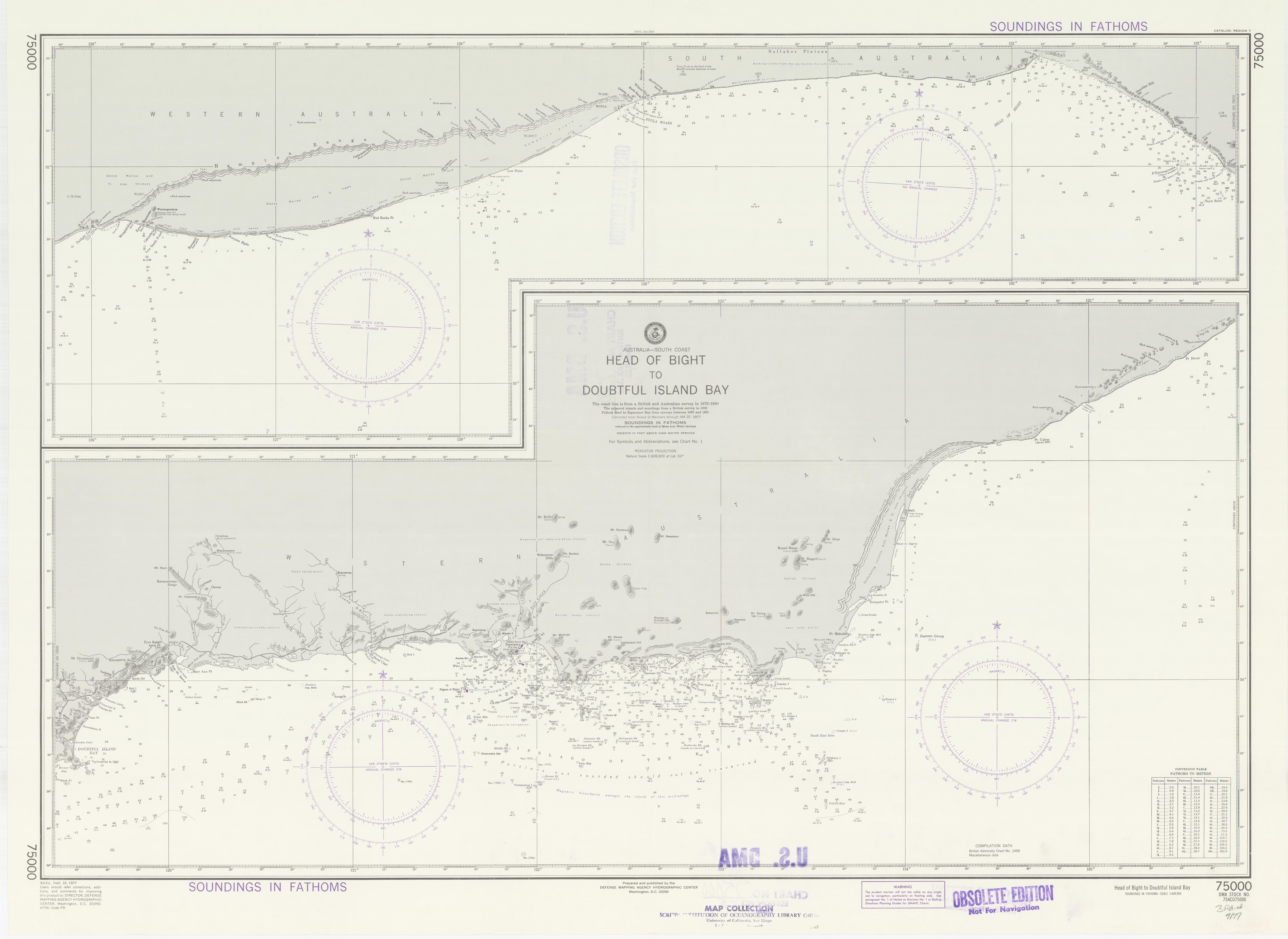 nautical chart: "HEAD OF BIGHT TO DOUBTFUL ISLAND BAY", South Coast of Australia, with the Recherche Archipelago